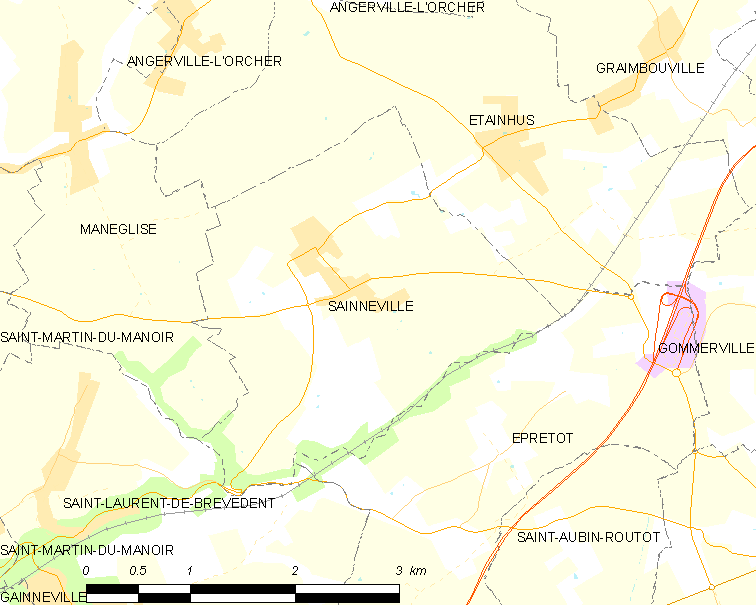 Map of French municipality Sainneville